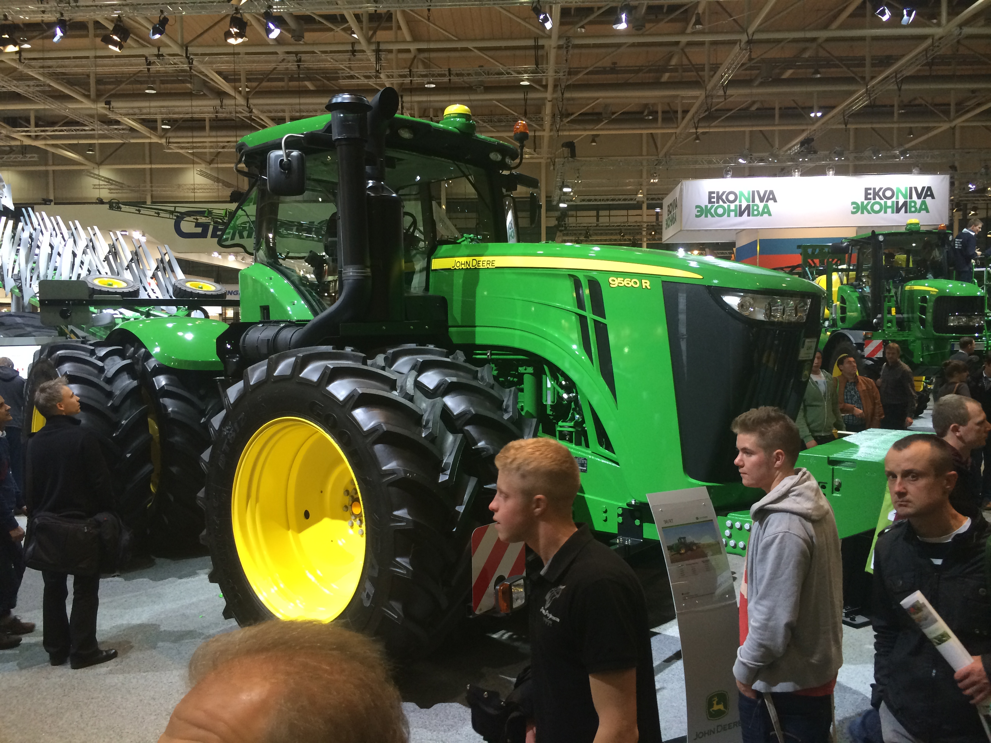 John Deere 9560 R, Agritechnica